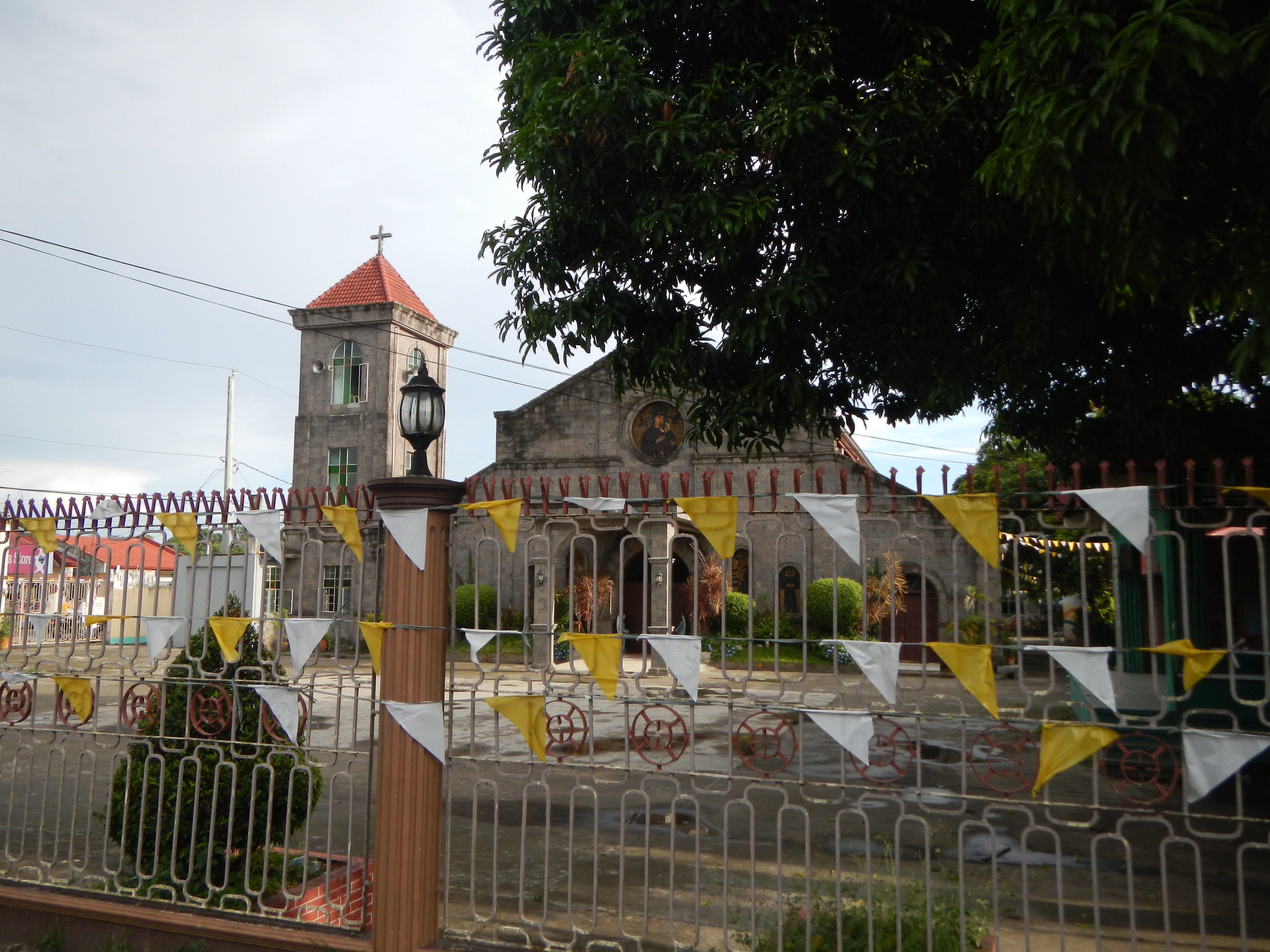 Our Mother of Perpetual Help Parish Church of Taguan, Bukal, Pan-Philippine Highway/Maharlika Highway Taguan, Candelaria, Quezon - belongs to the Roman Catholic Diocese of Lucena [1] [2] [3] Episcopal District of Saint Mark Vicariate of Saint Philip[4] Episcopal Vicar: Msgr. Dennis M. Imperial, P.C. Canonical Erection: 1981 Titular: Our Mother of Perpetual Help Parochial Feast: June 27 Parish Priest: Father Rolando A. Marasigan -- [5] [6] [7] Coordinates: 13°56'8"N 121°23'20"E - Our Lady of Perpetual Help [8] -- part of - Candelaria, Quezon [9] The Municipality of Candelaria (Filipino: Bayan ng Candelaria) is a first class municipality in the province of Quezon, [10] Philippines. According to the 2010 census, it has a population of 110,570, it has a total area of 175 km².